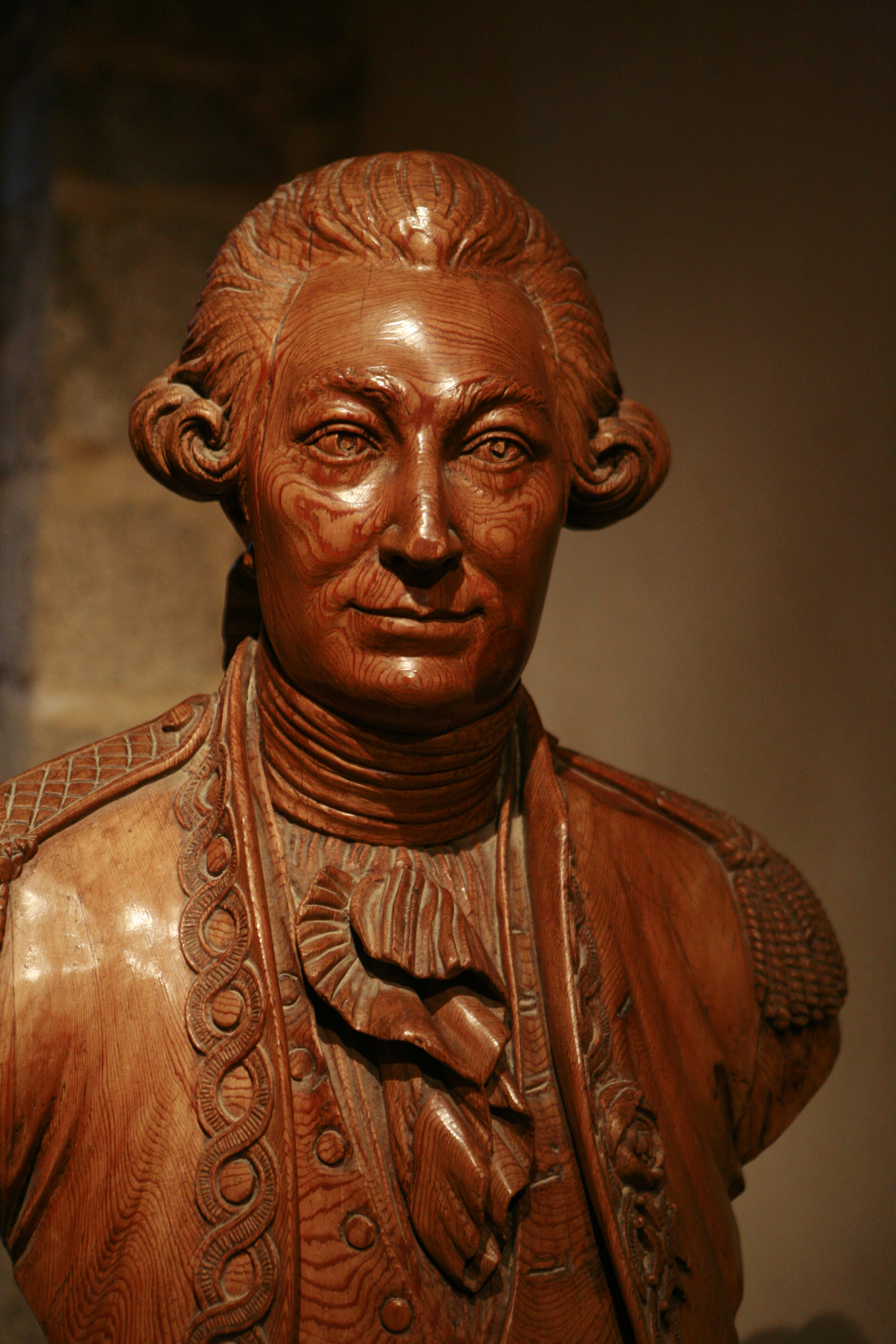 Bust of Charles du Couëdic, by the sculpture workshop of Brest arsenal On display at Brest naval museum, accession number MnM 41 OA 101